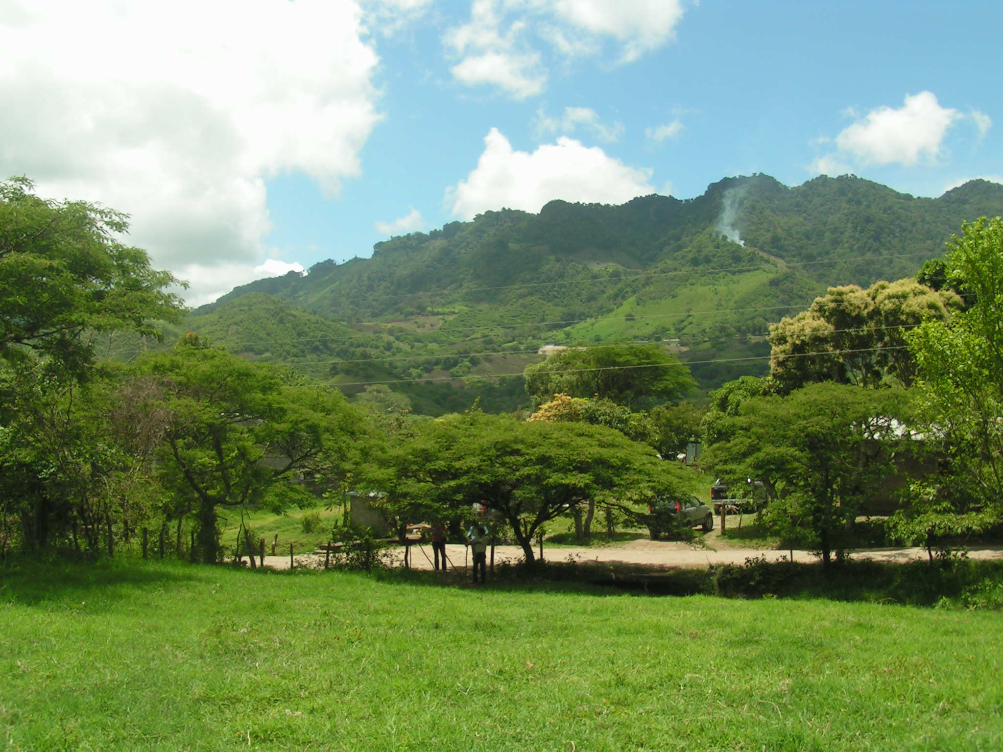 Jinotega mountains